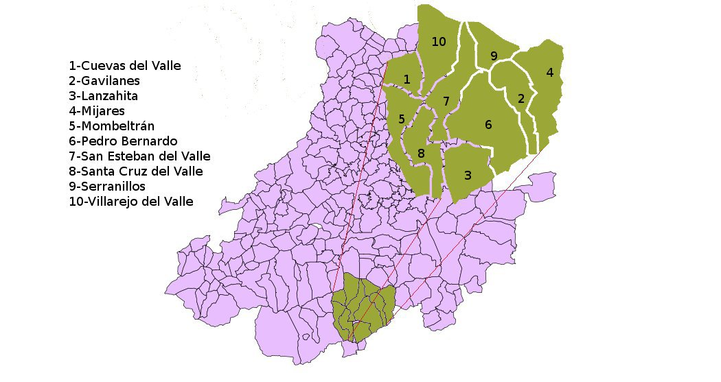 Términos municipales del Arciprestazgo de Mombeltrán